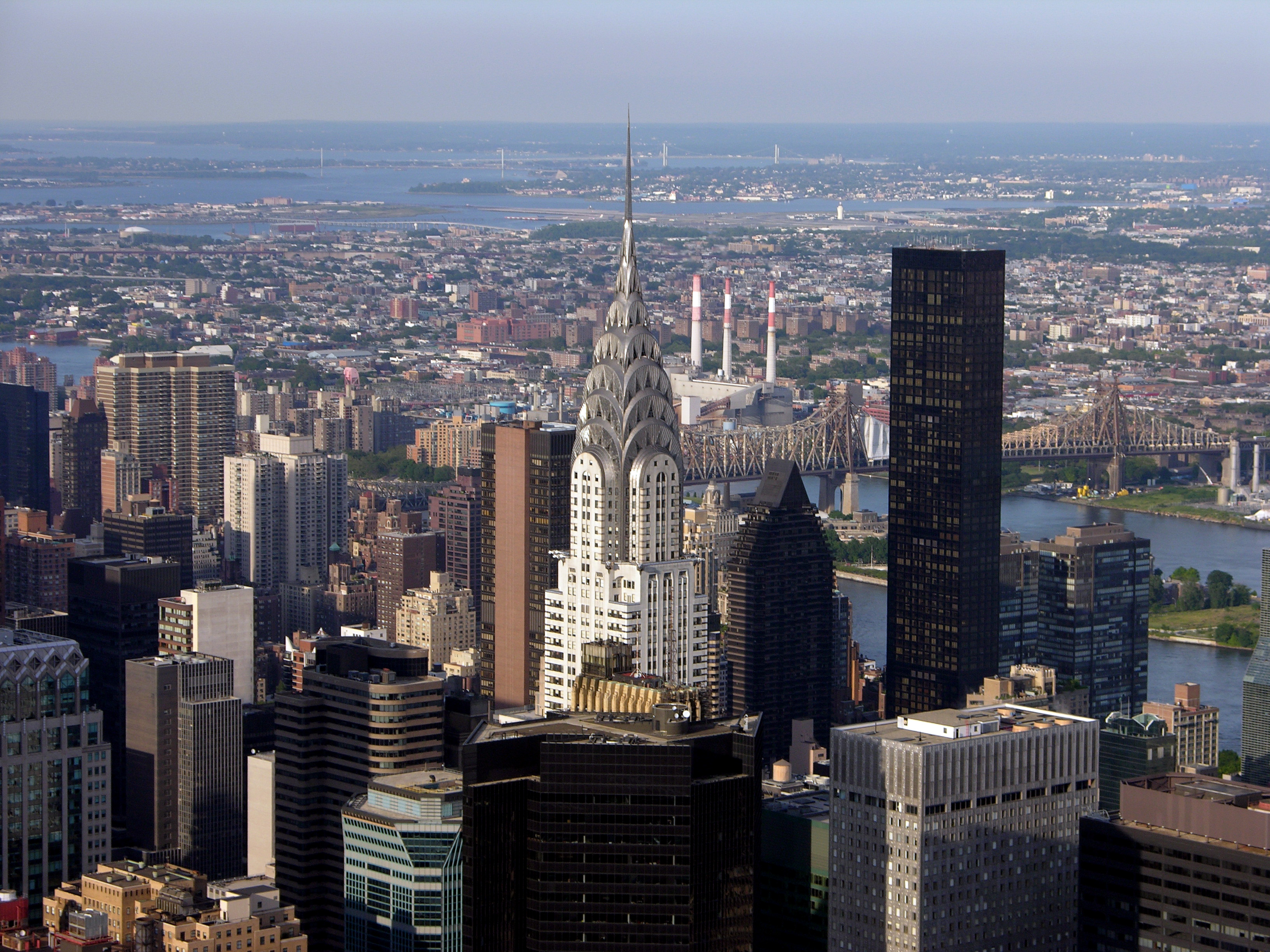 View of the Chrysler Building taken from the Empire State Building.